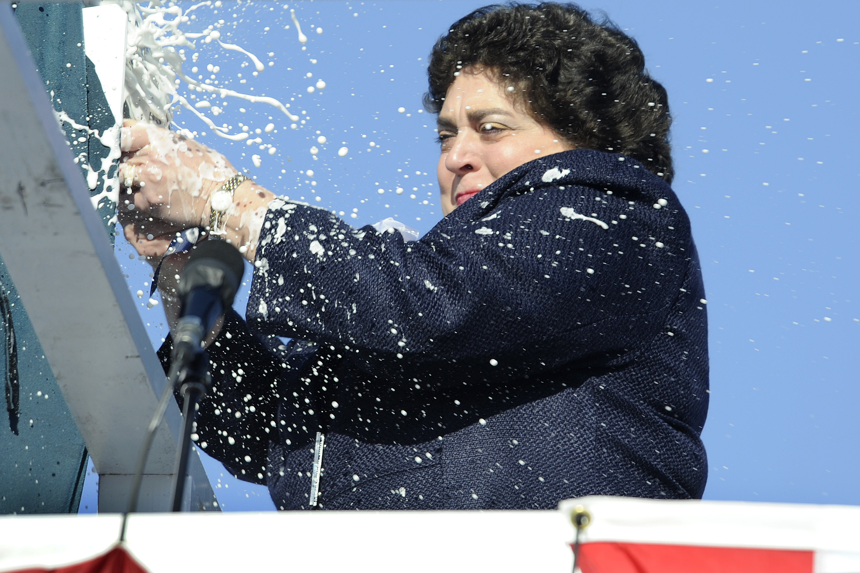 GROTON, Conn. (Dec. 3, 2011) Ship sponsor Allison Stiller christens the Virginia-class attack submarine Pre-Commissioning Unit (PCU) Mississippi (SSN 782) during a ceremony at the General Dynamics Electric Boat shipyard. Mississippi is the fifth U.S. Navy ship to bear the name of the Magnolia State and the ninth Virginia-class submarine. (U.S. Navy photo by John Narewski/Released)